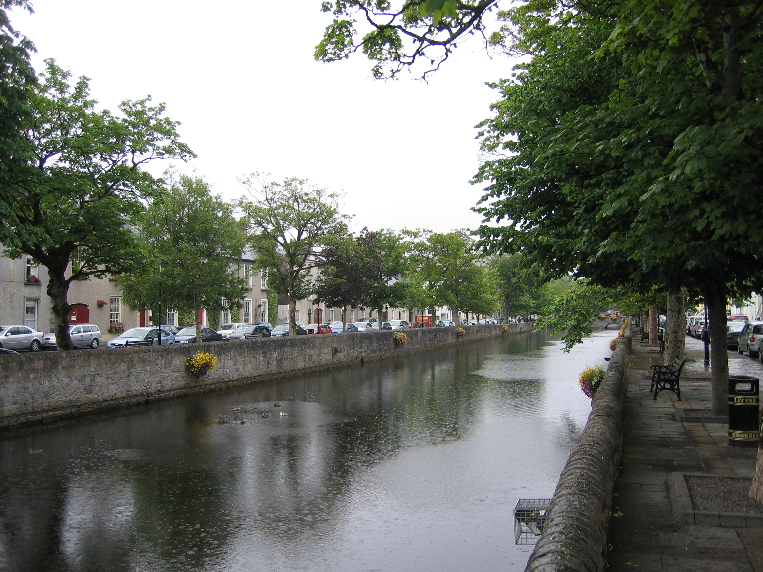 Carrowbeg river in Westport, Co Mayo, Ireland